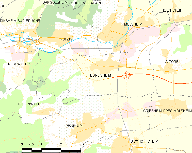 Map of French municipality